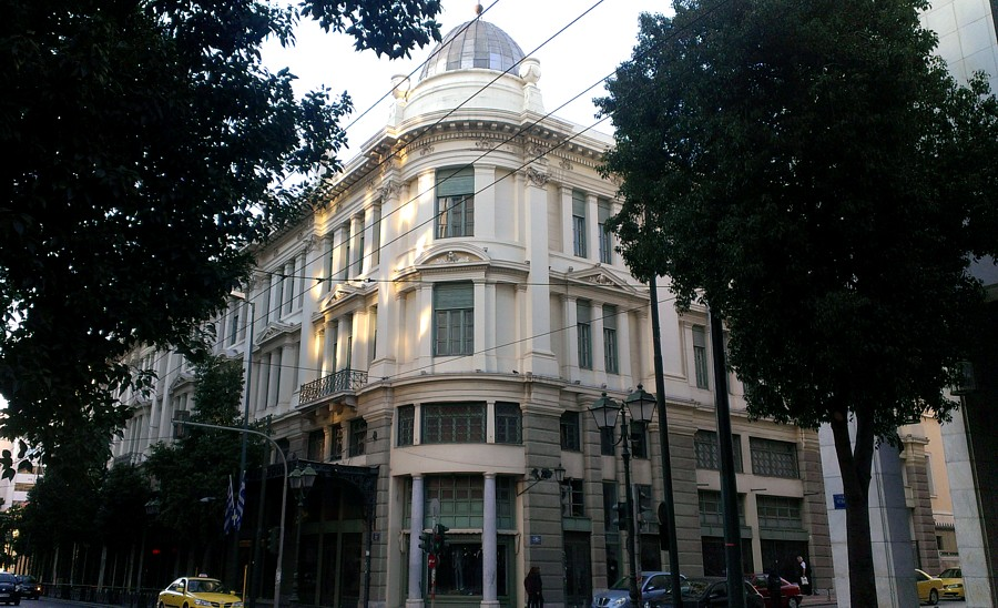 emporikon